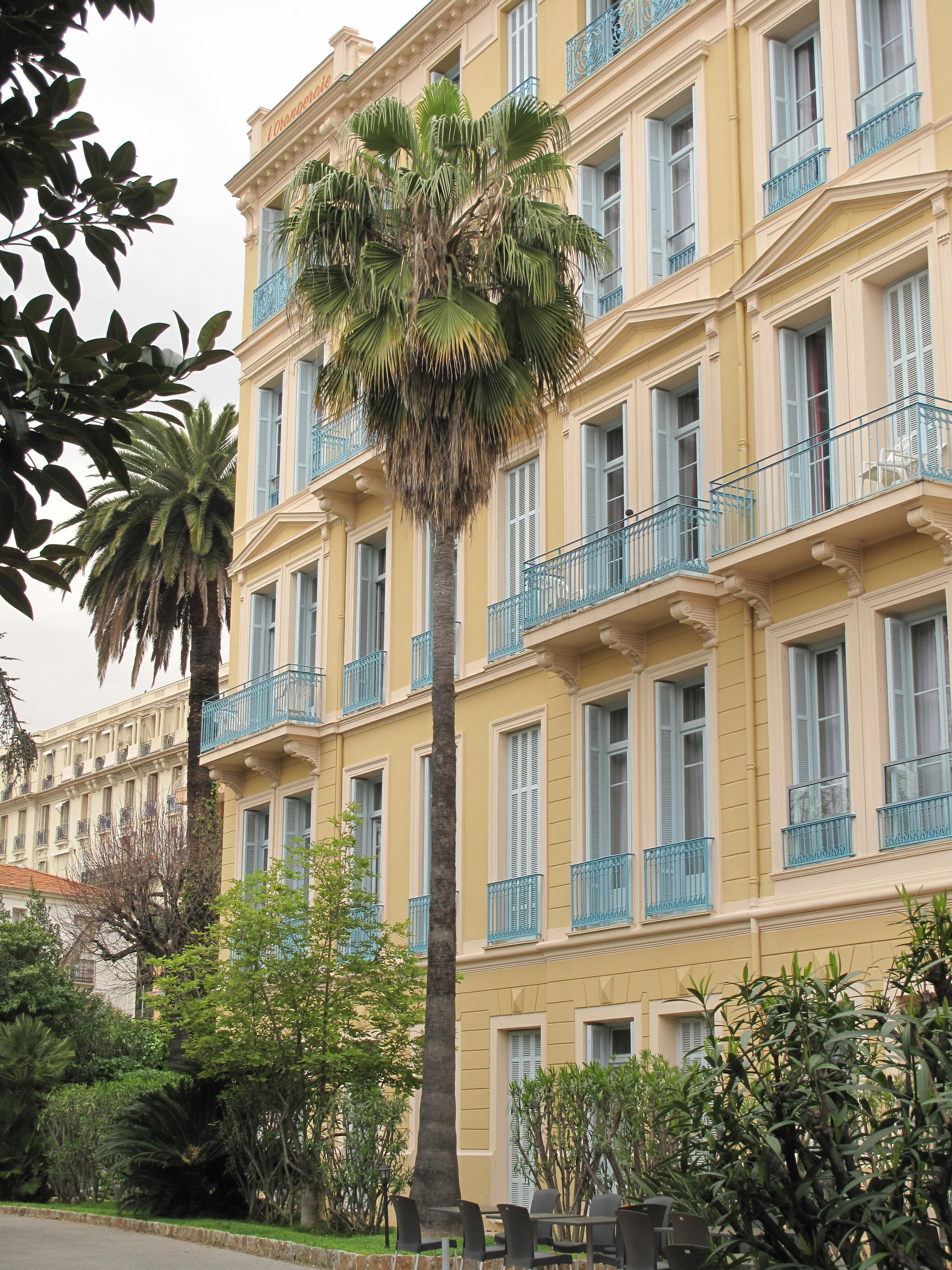 Trachycarpus fortunei in the garden of the hotel de l'Orangeraie (formerly grand hôtel de Venise) in Menton (Alpes-Maritimes, France). Identified by its botanic label.